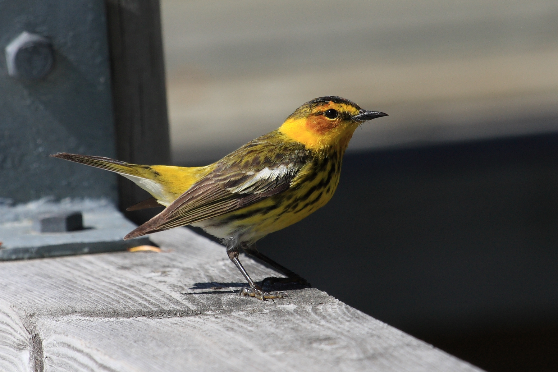 Cape May Warbler, Cap Tourmente National Wildlife Area, Quebec, Canada